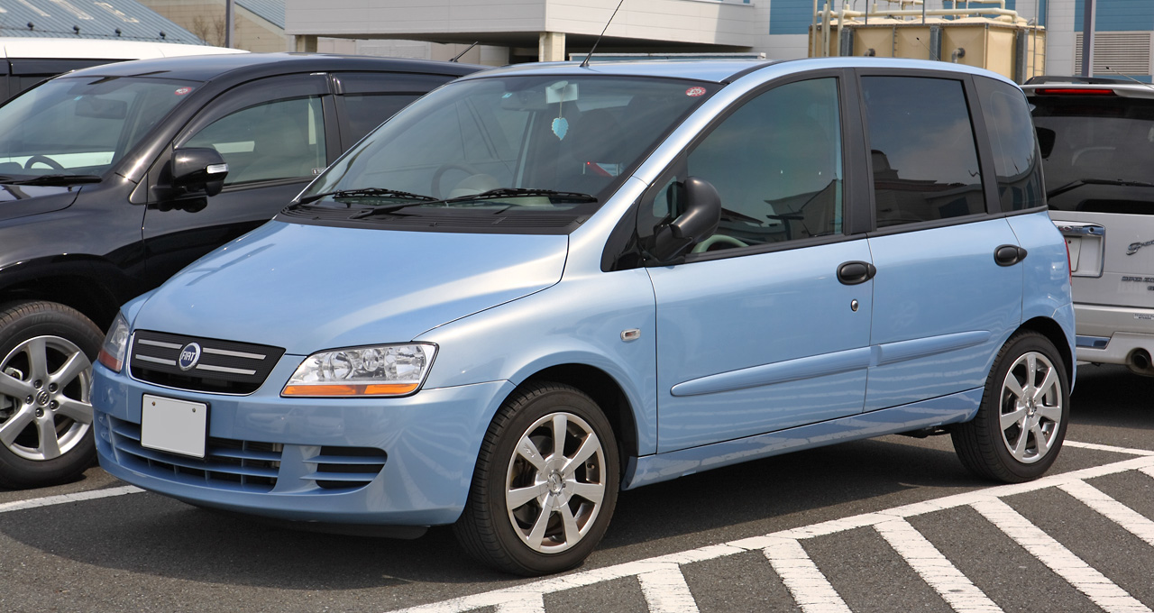 Fiat Multipla (passanger car with 3 seats in front and 3 in the back)